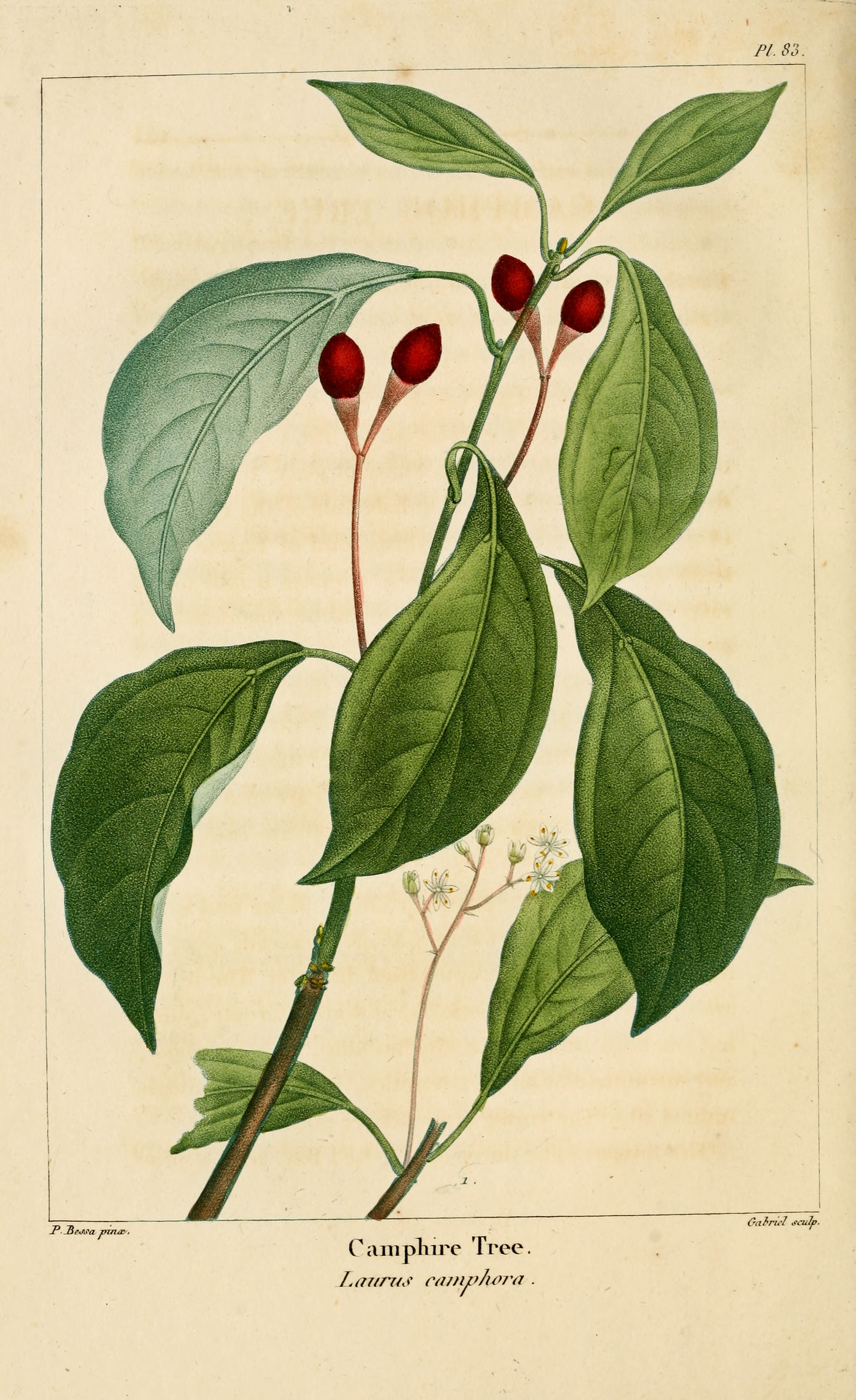 Plate from The North American Sylva